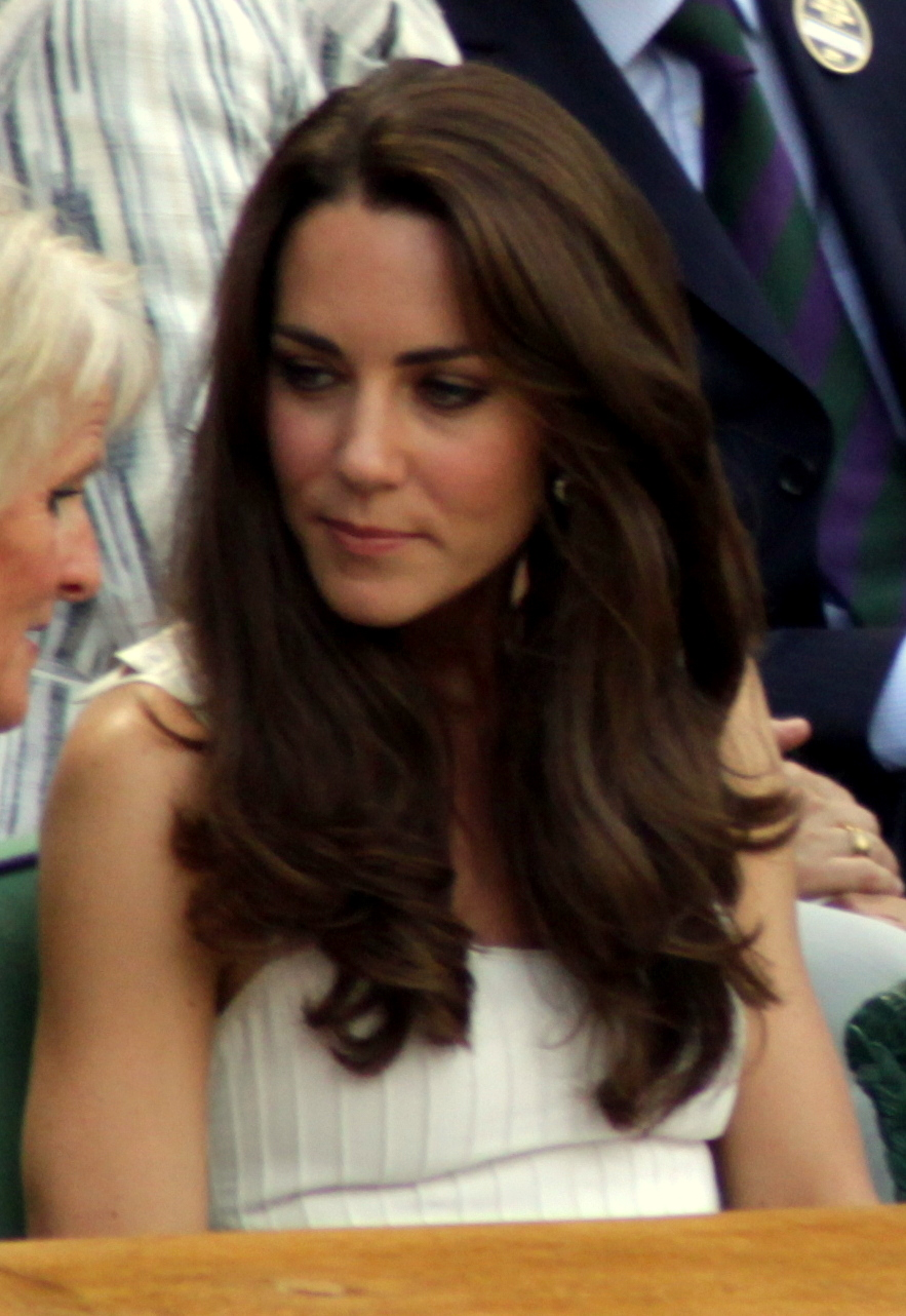 The Dutchess of Cambridge in the Royal box on the second Monday of the 2011 Wimbledon Championships.